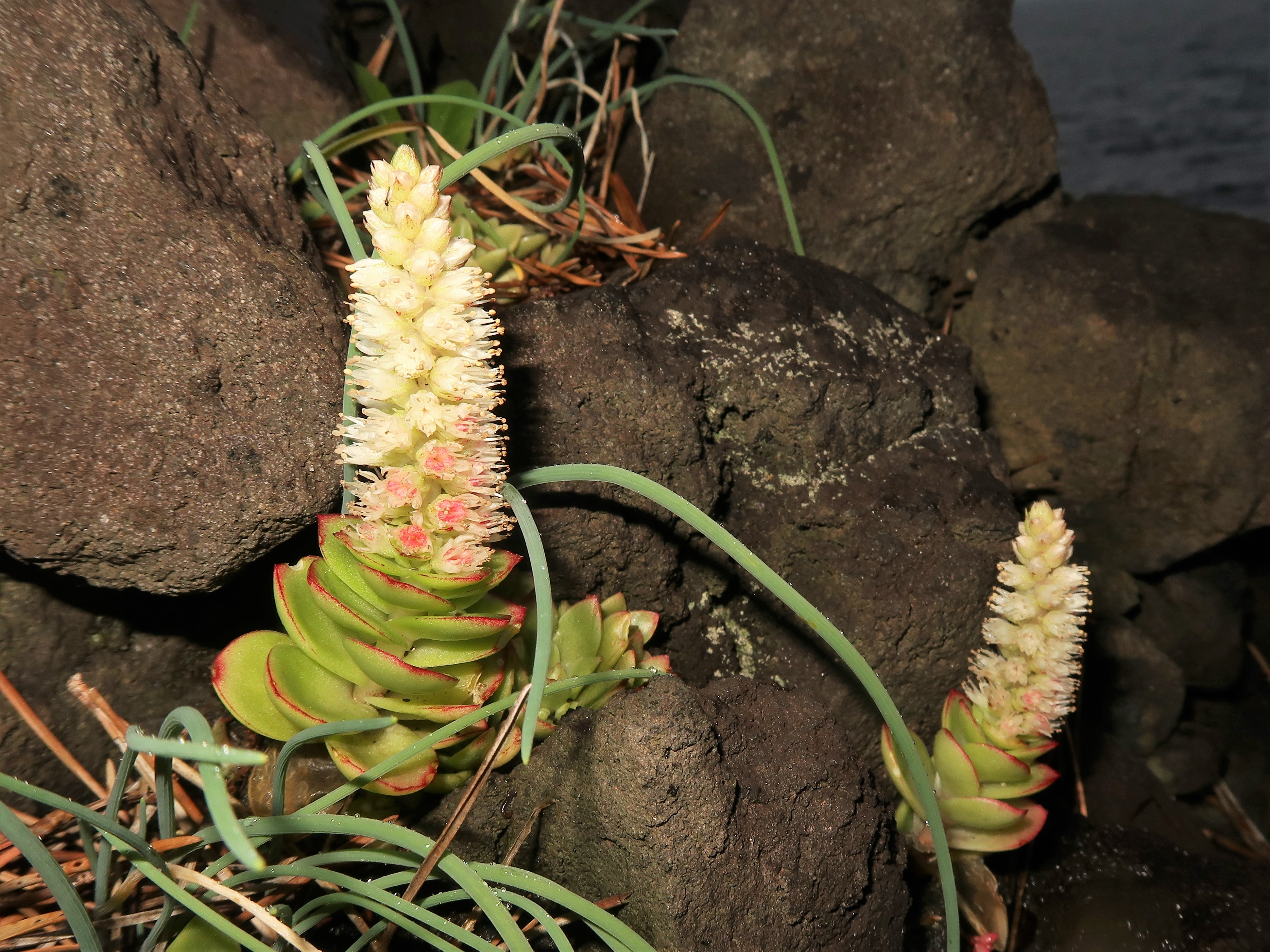 Orostachys malacophylla var. aggregeata, Shimokita peninsula, Aomori pref., Japan